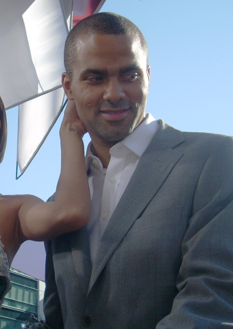 60th Annual Emmy Awards, Nokia Theater, Sept. 21, 2008